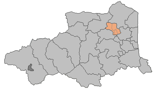 Canton of Saint-Estève in the French Pyrénées-Orientales department.